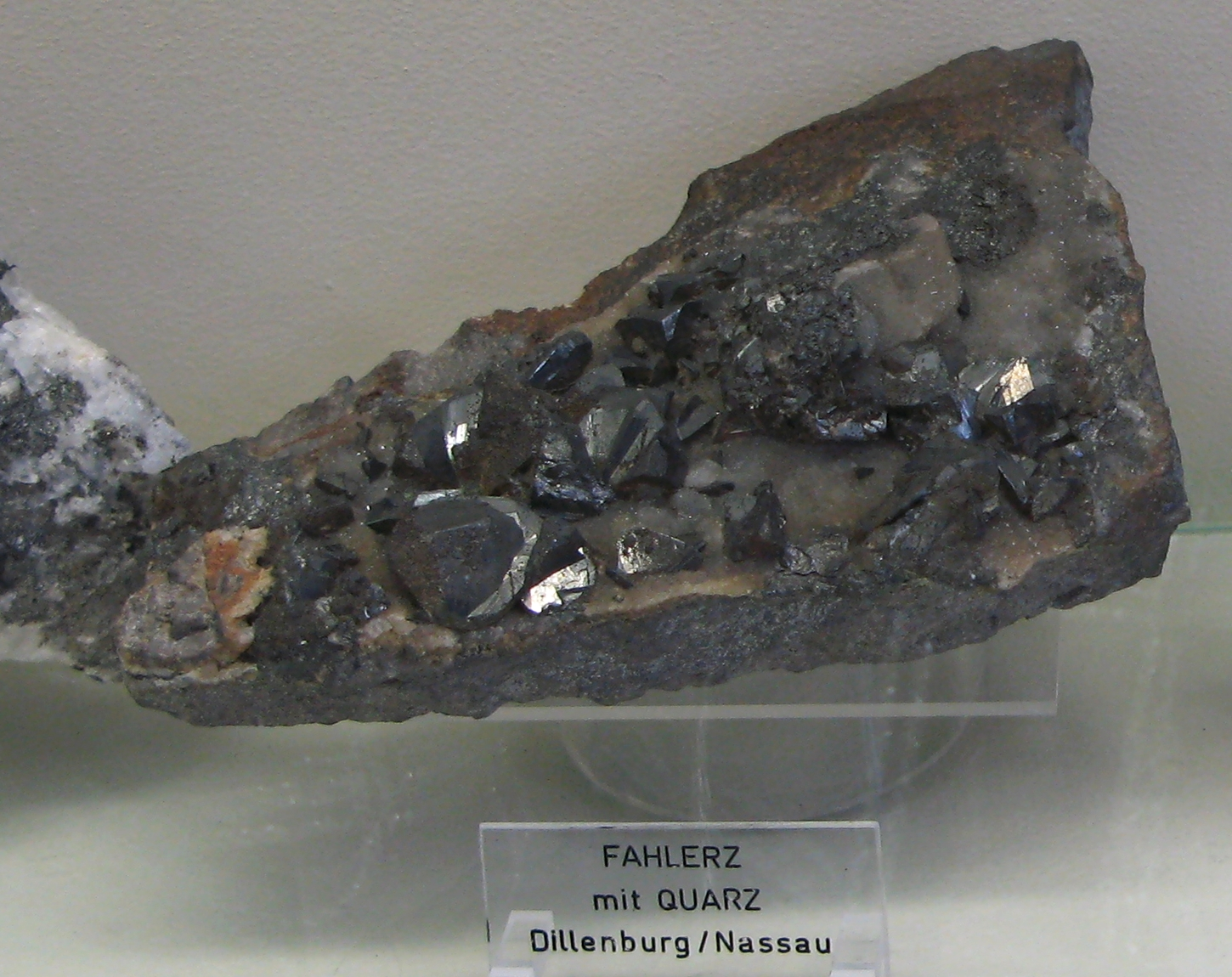 Fahlore with Quartz - Locality: Dillenburg, Nassau - Exposed in the Mineralogical Museum, Bonn, Germany